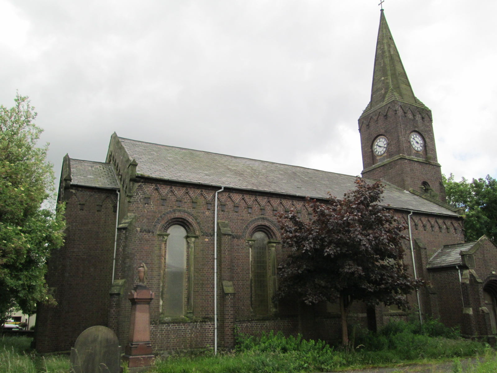 Church of St John the Evangelist, Goldenhill, Staffordshire, seen from the north. Closed in 2014.